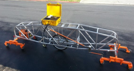 Rigid Truss Frame Bridge Profilograph for street flattness measurement